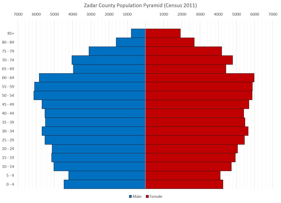 Population pyramid of Zadar County. Version in English. Data from 2011 Census; available at